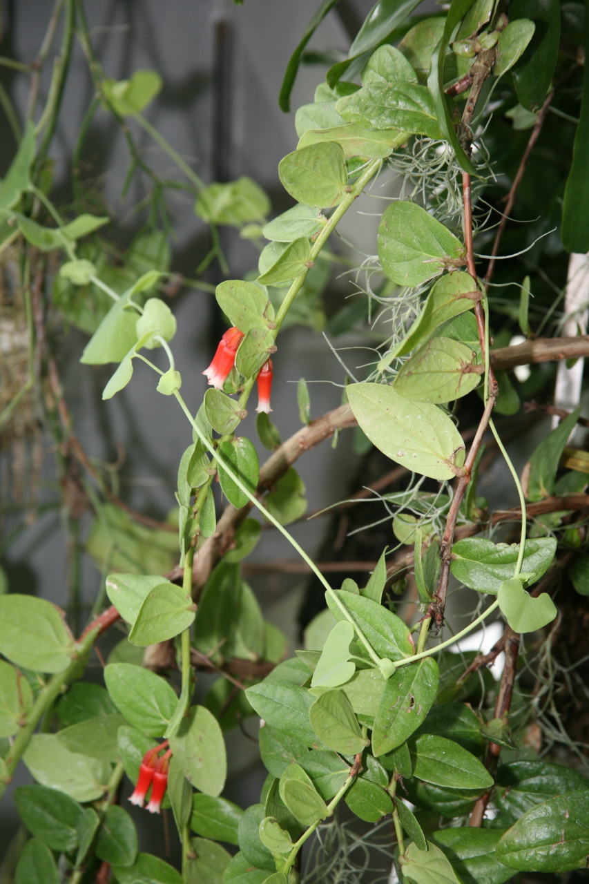 Macleania insignis, US Botanic Garden, Washington, DC